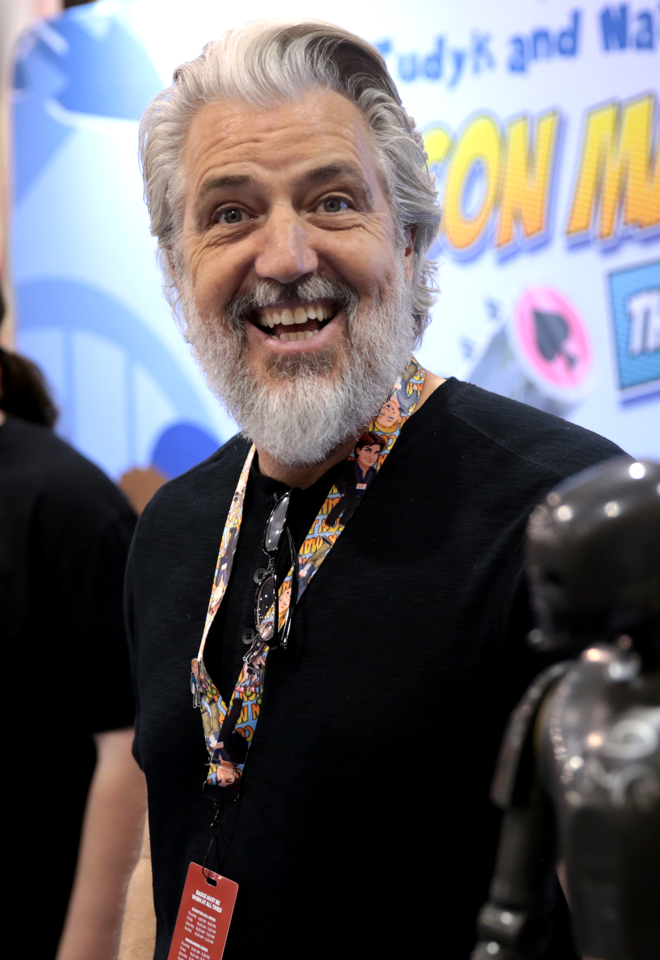 PJ Haarsma speaking at the 2017 Phoenix Comicon in Phoenix, Arizona.